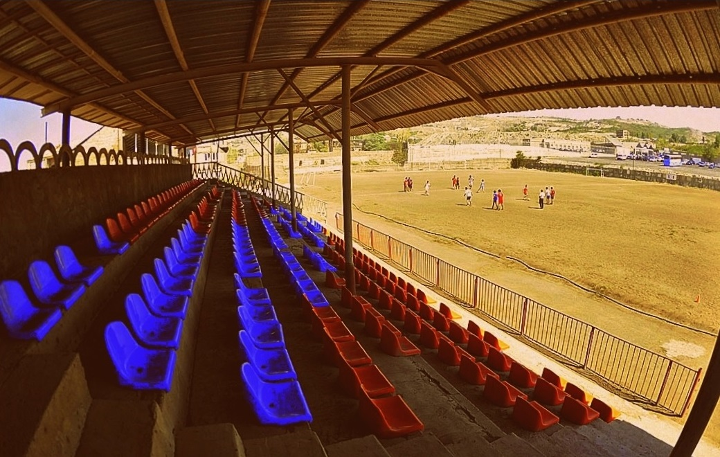 Erebuni stadium, Yerevan